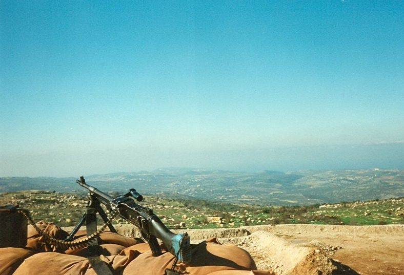 מוצב כרכום ברצועת הביטחון בלבנון מבט דרום מערבה, מעמדה ליד השער 1998